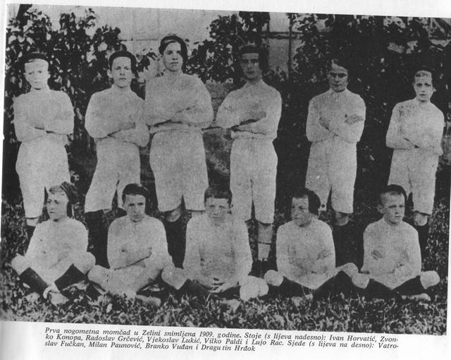 Picture of NK Zelina fooballers